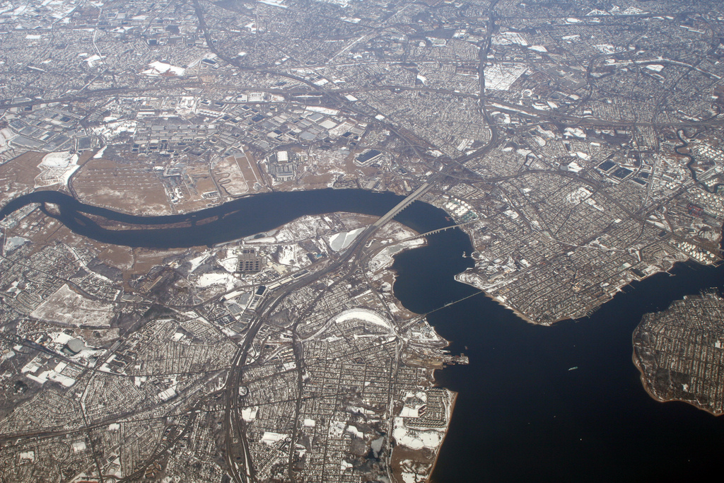 The Raritan River in Central New Jersey empties into the Raritan Bay, an arm of the Lower New York Bay in the Port of New York. Arthur KIll seen lower right. (Feb 2014)